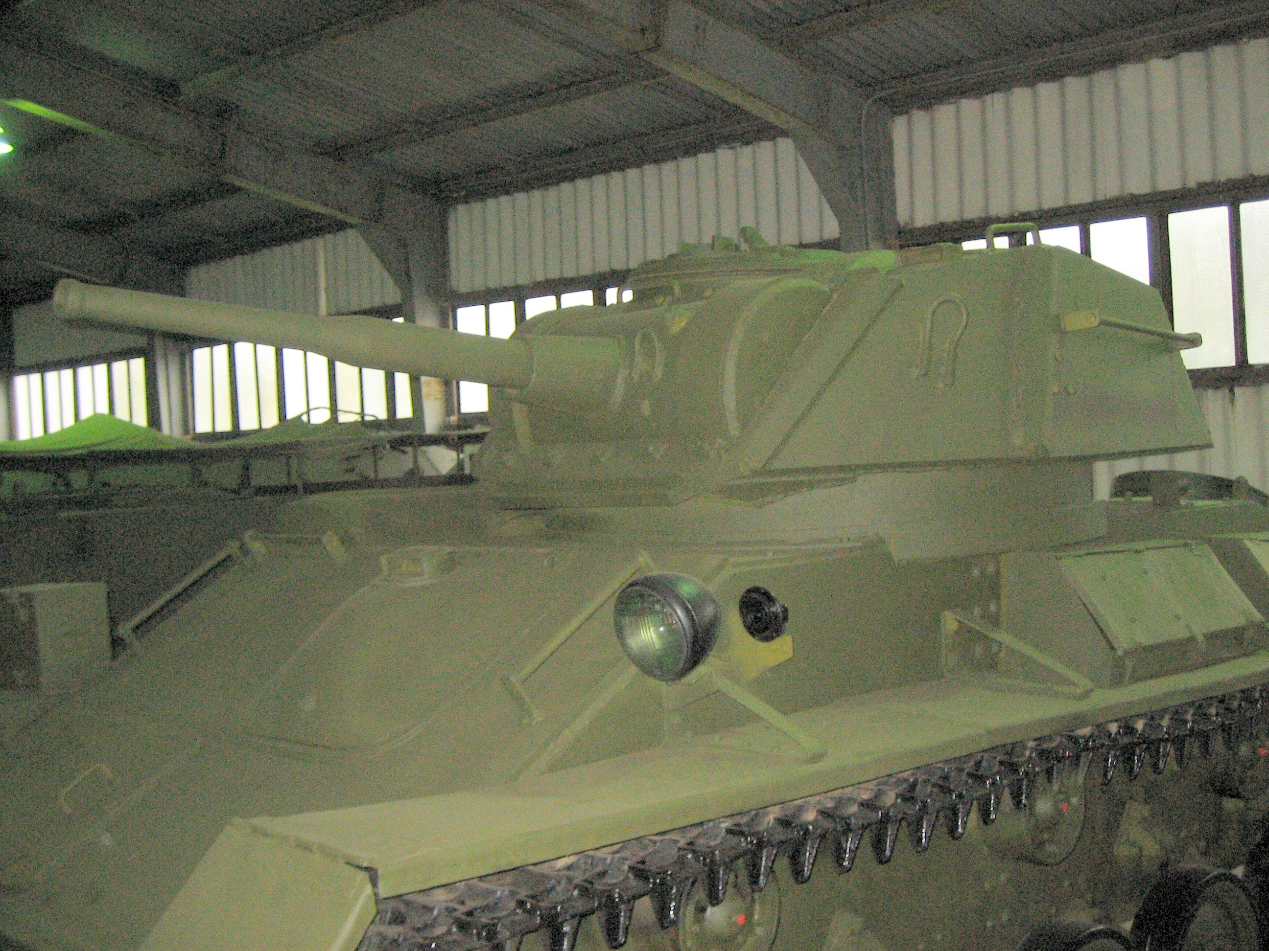 Soviet light infantry tank T-80, displayed in Kubinka Tank Museum. Photo taken on September 9, 2007. Source: Photo by me, User:Saiga20K.